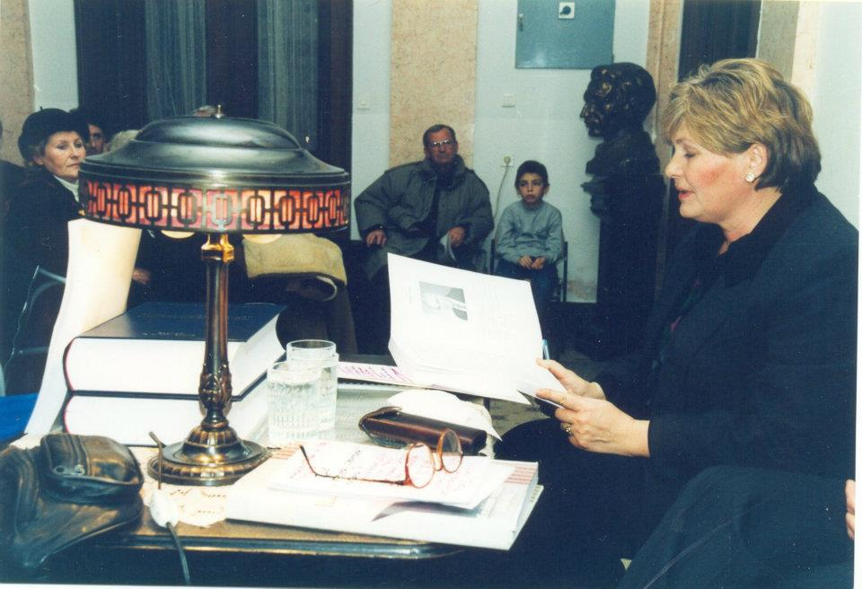 Marija Tanackov u kikindskoj biblioteci na jednoj od književnih večeri.